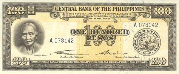 Php 100-peso English series bill (observe)